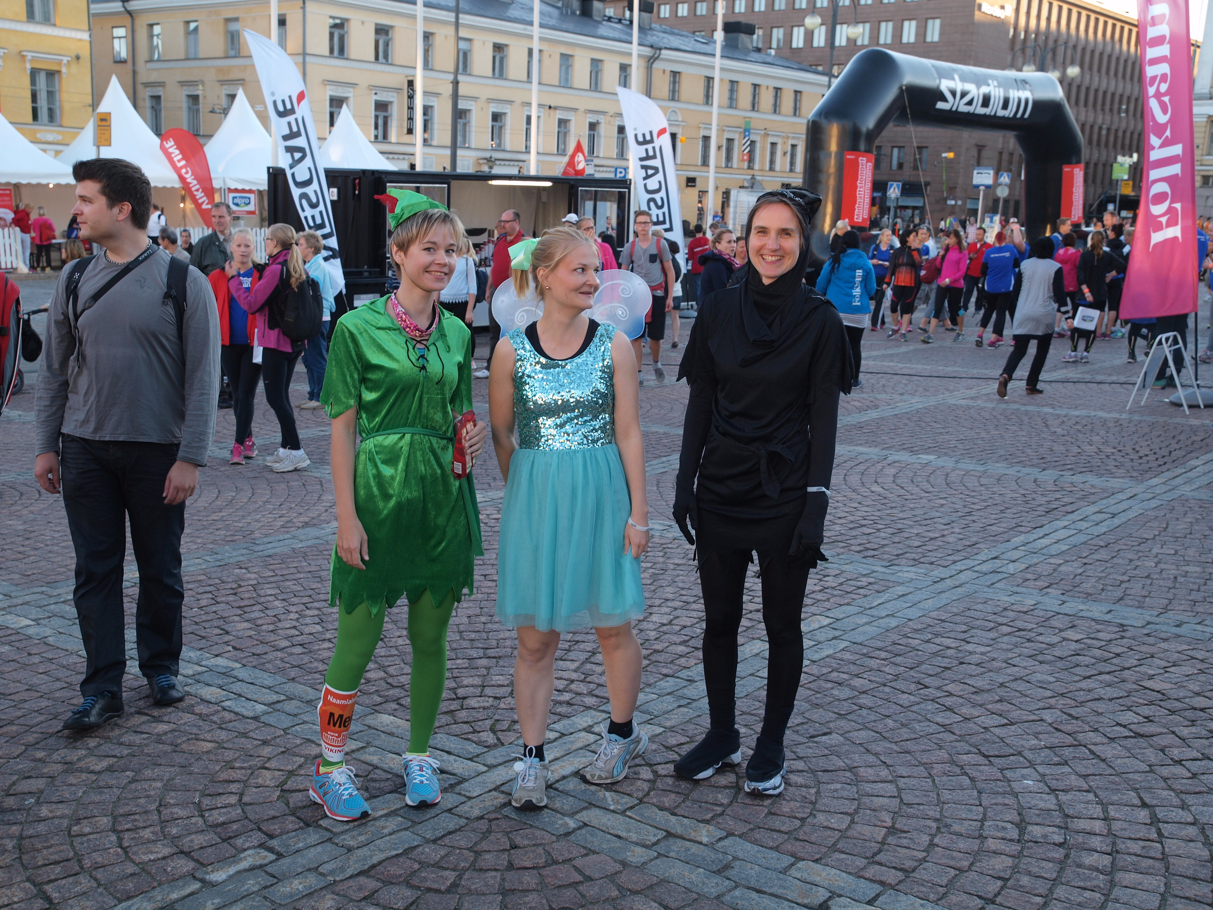 Three young women in various fancy dress costumes posing at the Senate Square in central Helsinki, Uusimaa, Finland, about to participate in the Midnight Run event near midnight.